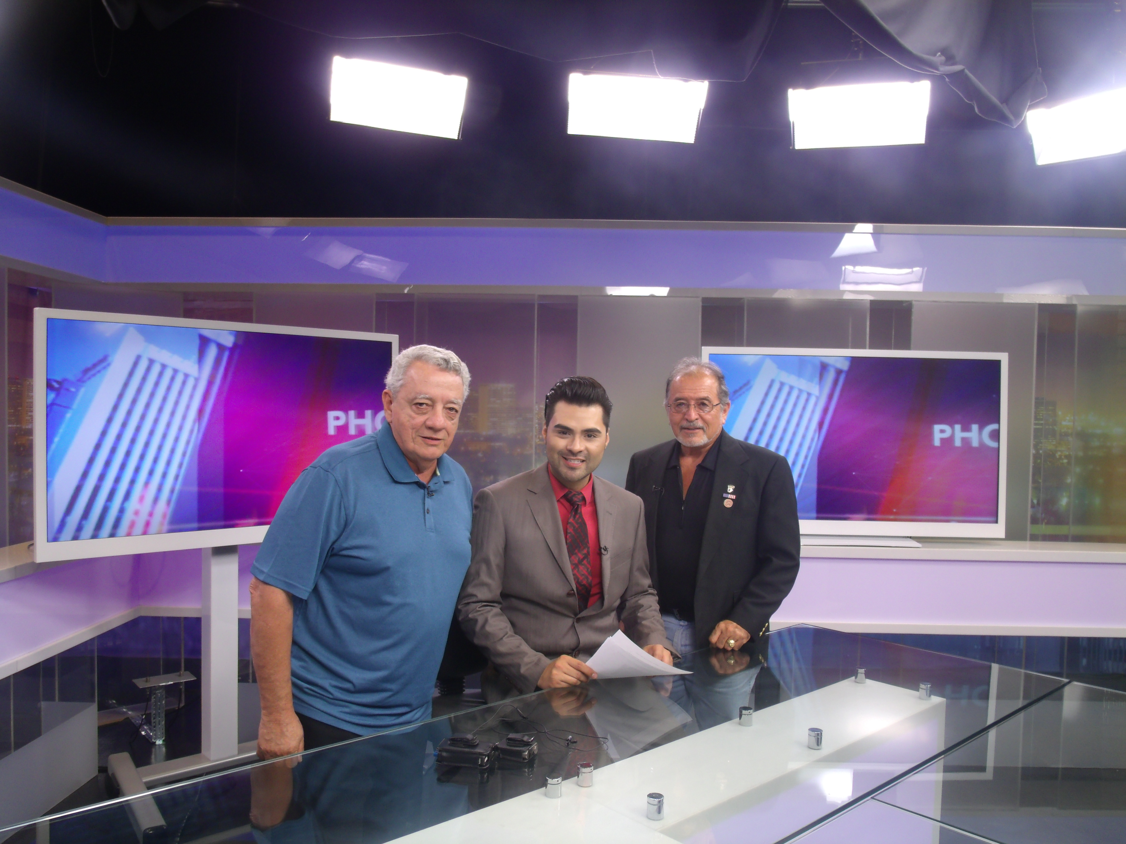 Univision news studio where Journalist Jorge Valenzuela interviewed Tony Santiago and Oscar Urrea in regard to their participation in the documentary: On Two Fronts: Latinos & Vietnam. This picture was taken on my camera with a self image taking device.